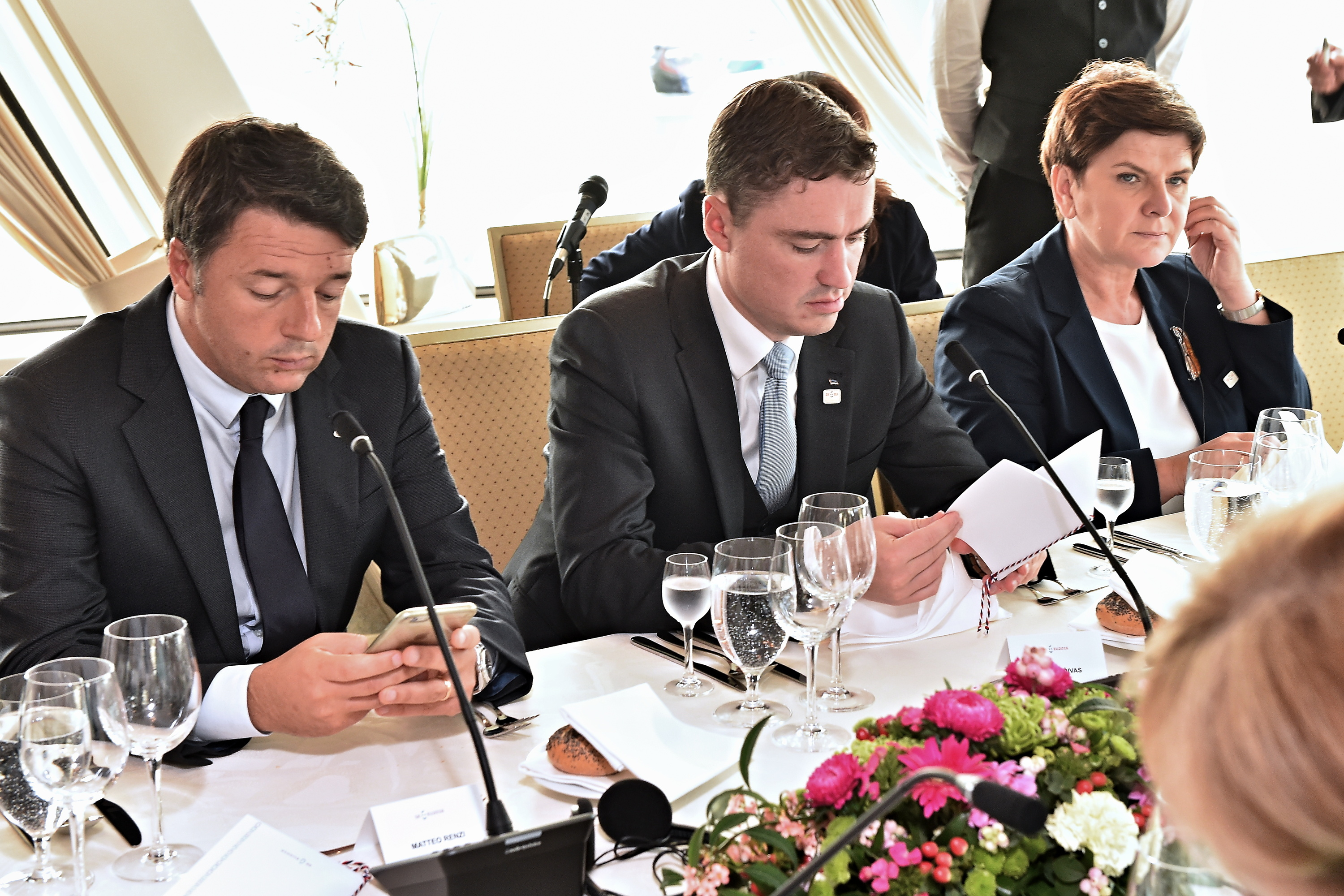 Informal Lunch of 27 Heads of States or Governments-Danubia Boat 2016-09-16 Photo Rastislav Polak